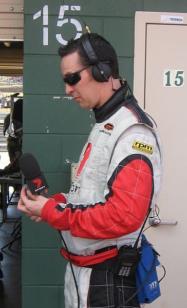 Daniel Gibson in Darwin who is an reporter and commentator for Seven’s V8 Supercars coverage.